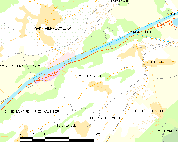 Map of French municipality